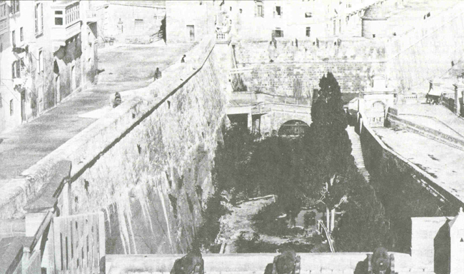 Gnien is-Sultan, Valletta, Malta